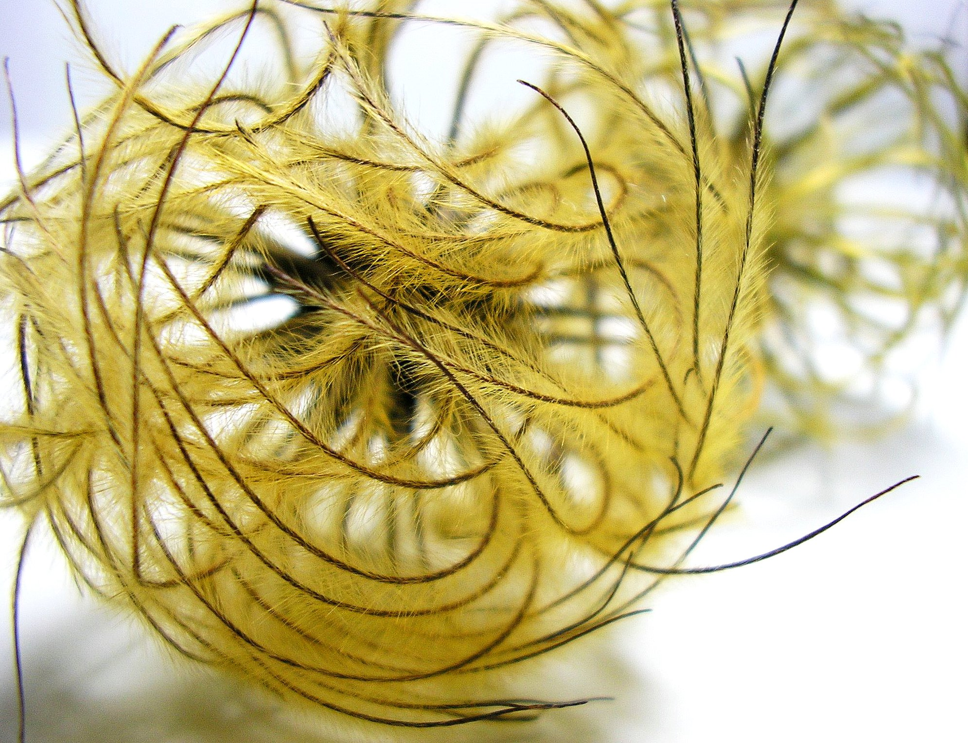 Macro of clematis seeds.